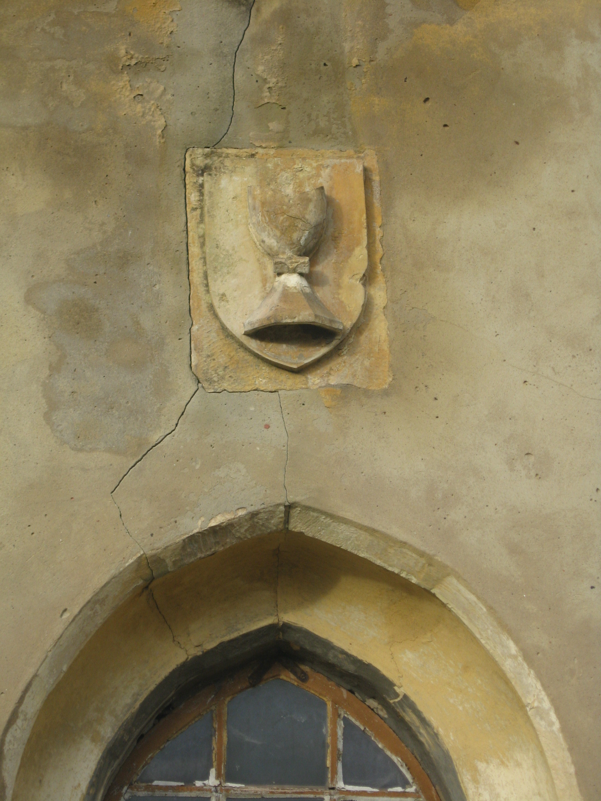 Chalice from 15th or 16th Century on the Presbytery of the Church in Chouč